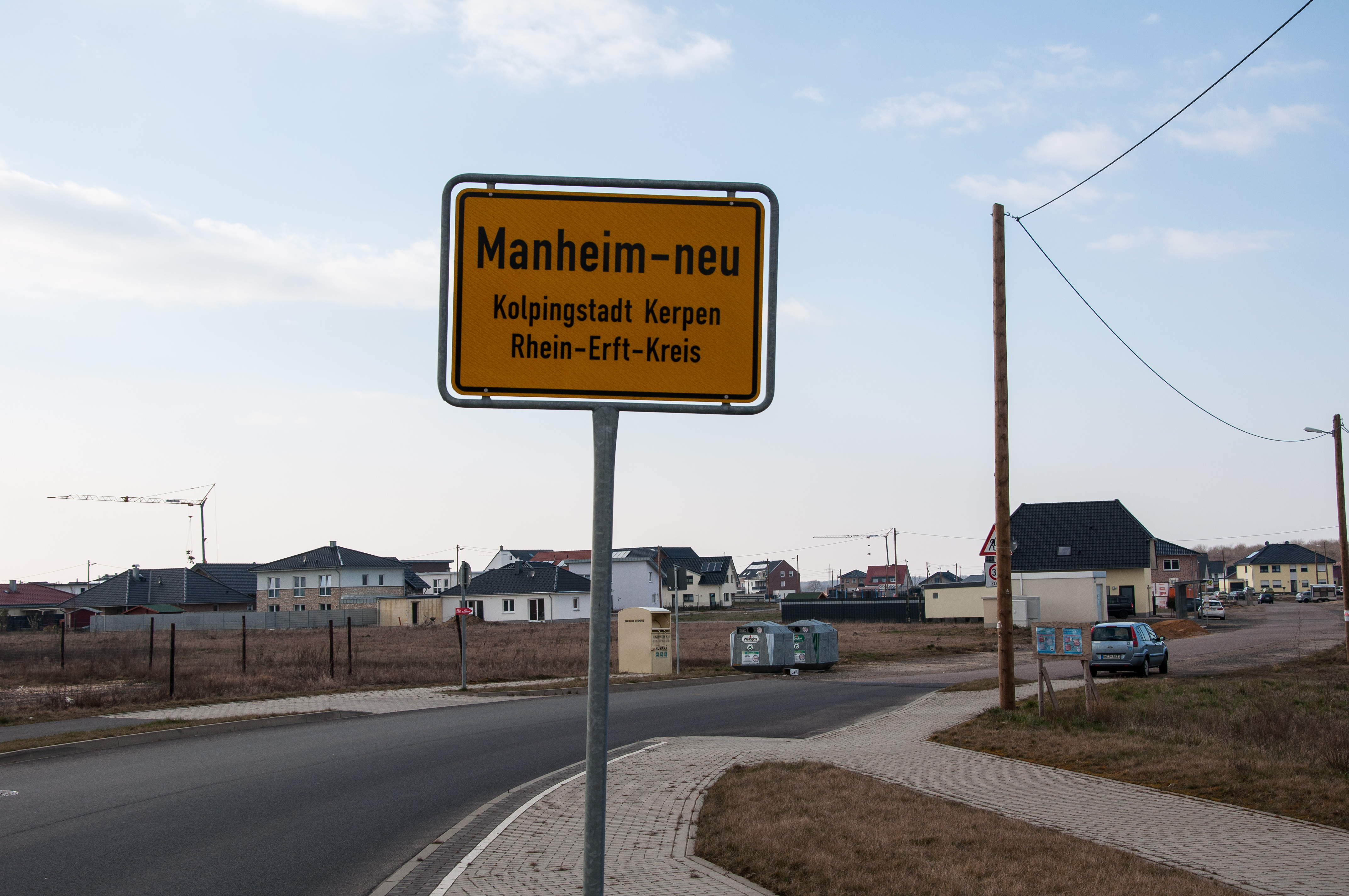 View to Manheim-neu, Kerpen, Germany